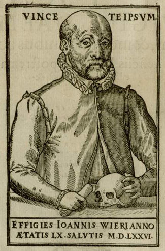 Johannes Weyer 1576